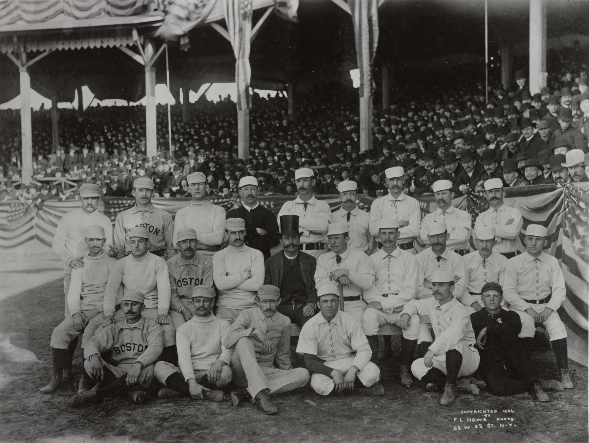 Opening of the baseball season: New York vs. Boston, Polo grounds, 5th Ave. & 110th St. N.Y.C.